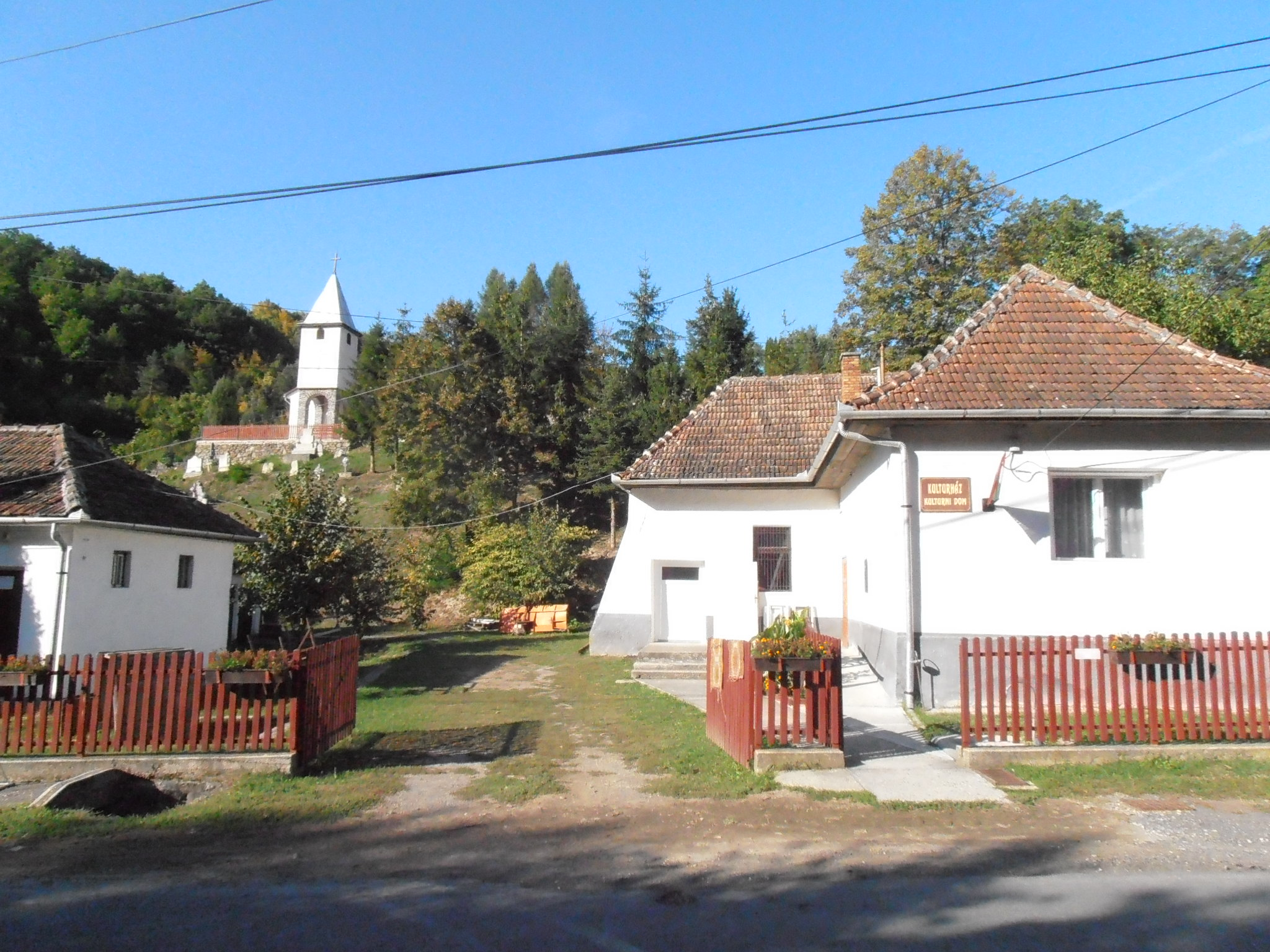 Community house and Roman Catholic temple in Vágáshuta, Hungary Kultúrház és katolikus templom Vágáshután